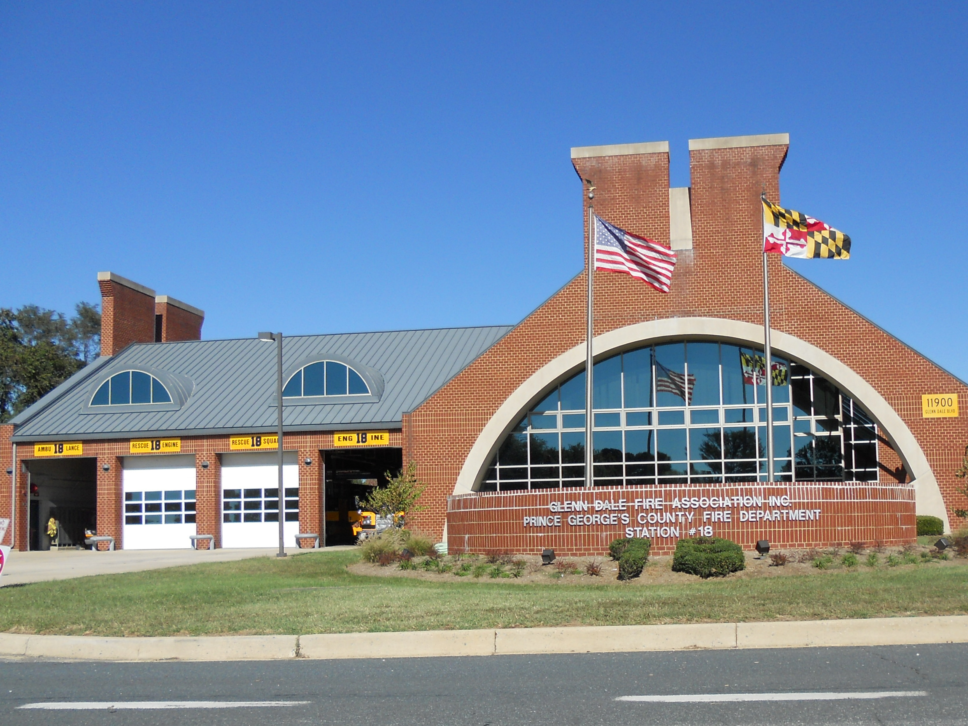 Station